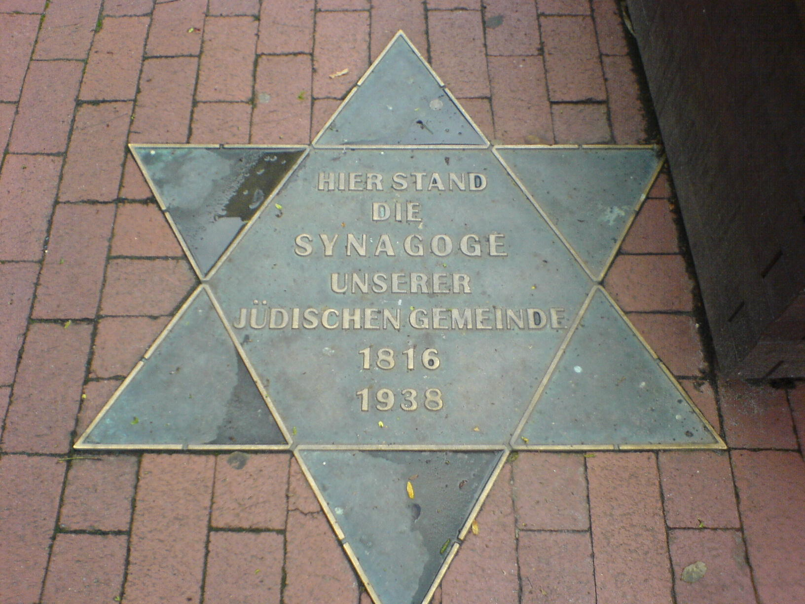 jewish memorial in Wittmund